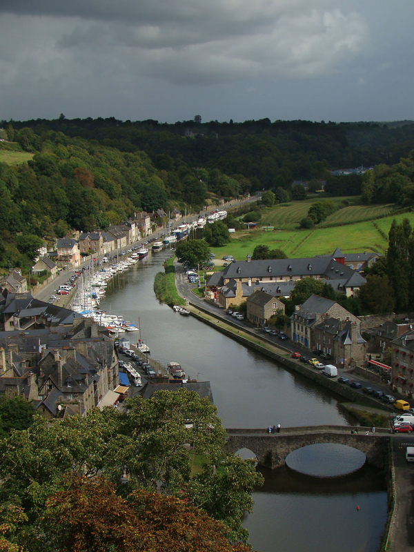 Dinan, Côtes-d’Armor, Bretagne, France. The harbour on the banks of the Rance River.